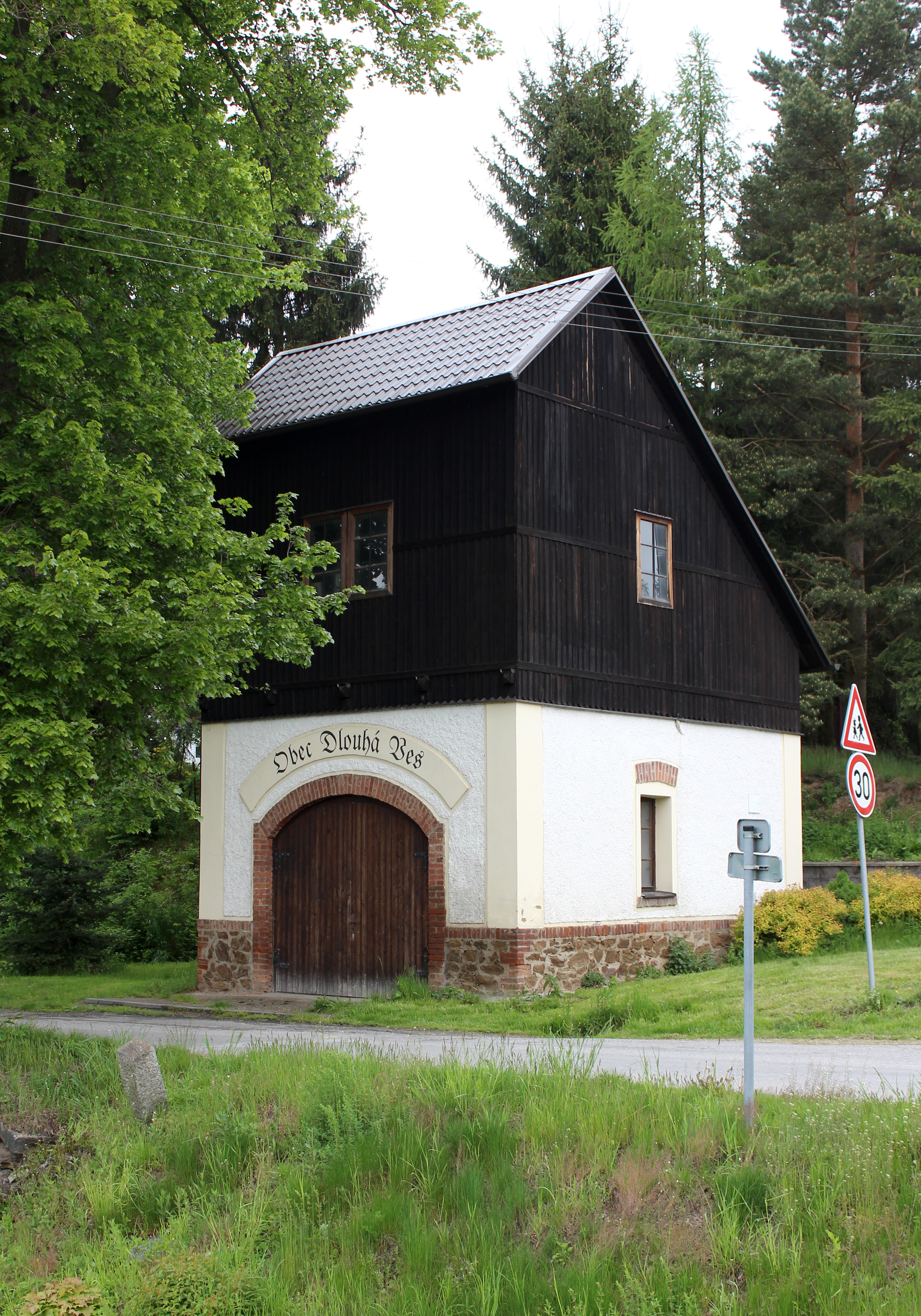 Tower in Dlouhá Ves village, Czech Republic